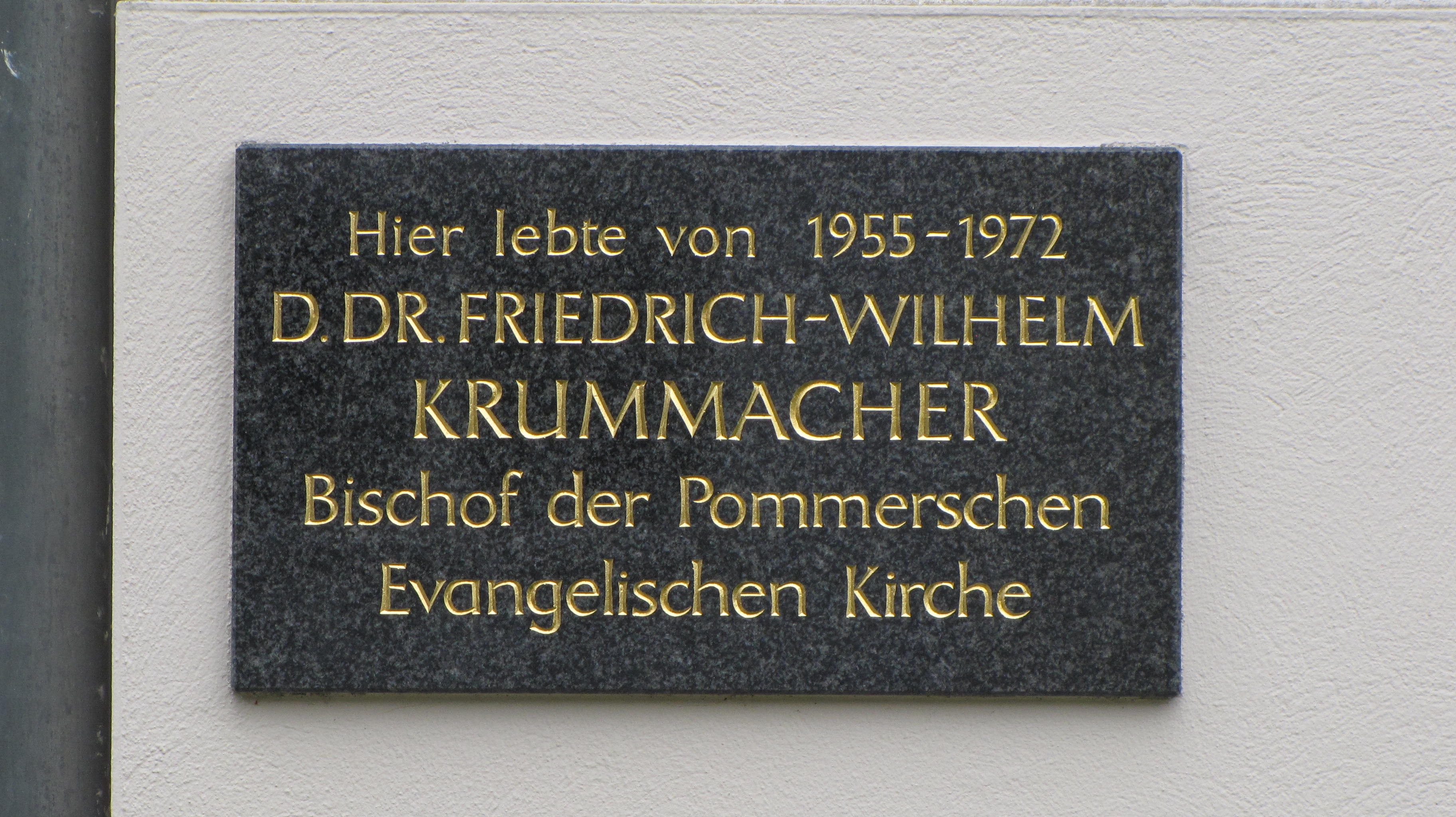 Plaque at Rudolf-Petershagen-Allee 3 in Greifswald commemorating Bishop Krummacher